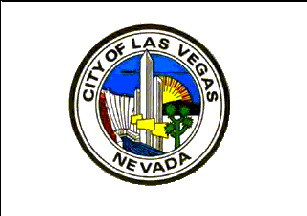 Flag of Las Vegas, Nevada (1968)